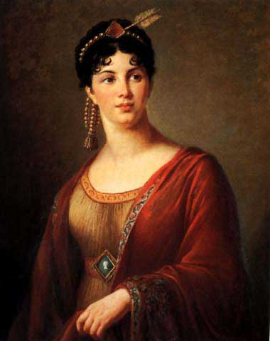 Opera singer Mme Josephine Grassini, painted in London, 1803.